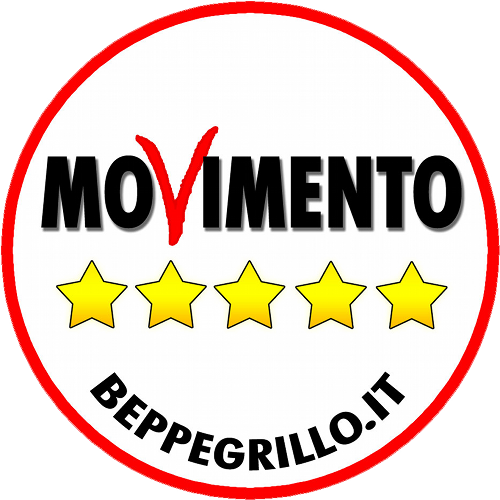 M5S logo